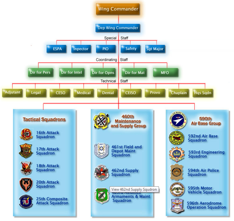 15th Strike Wing - Structure